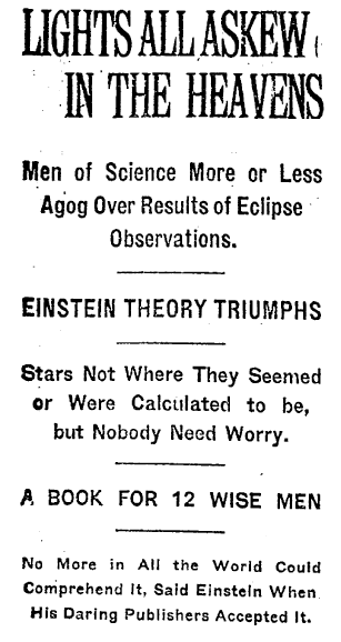 New York Times, 10th November 1919. Eddington's experiment